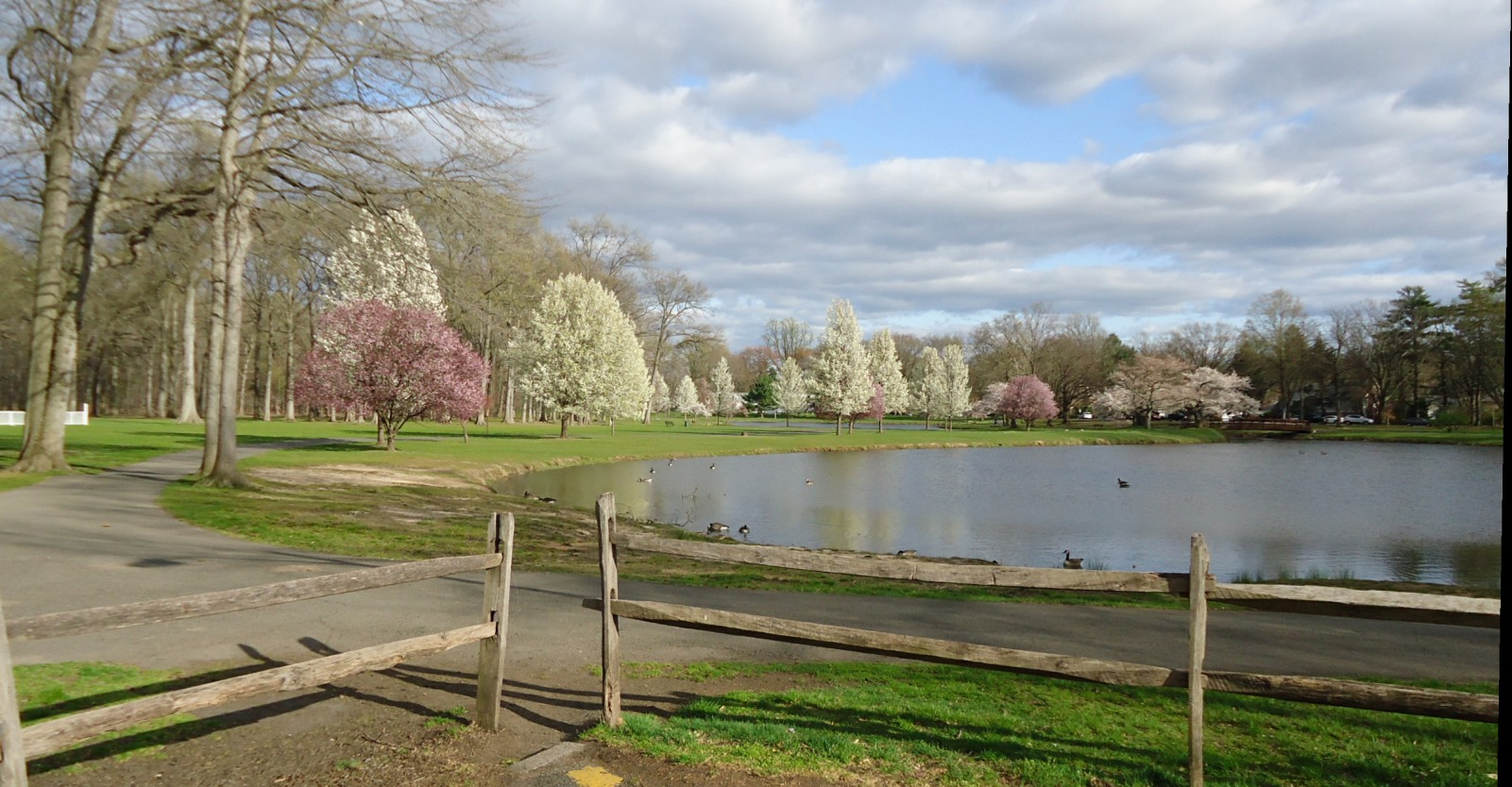 Scene from around the lake at Nomahegan Park, across the street from Union County College, in Cranford, New Jersey.